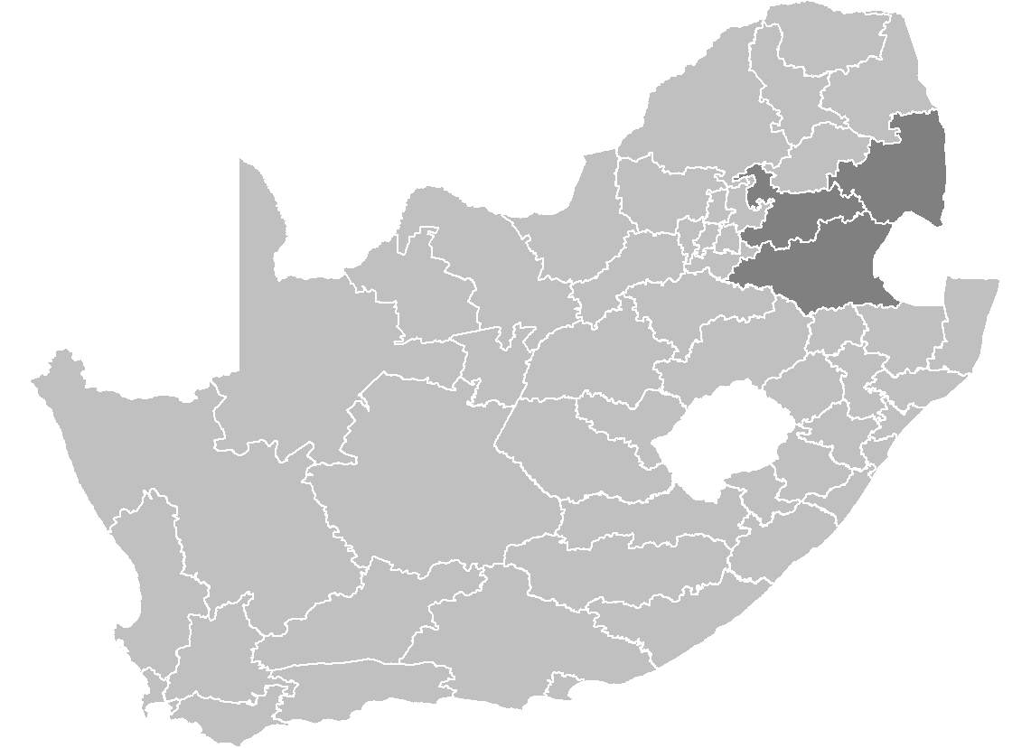 Map showing the District Municipalities of Mpumalanga.